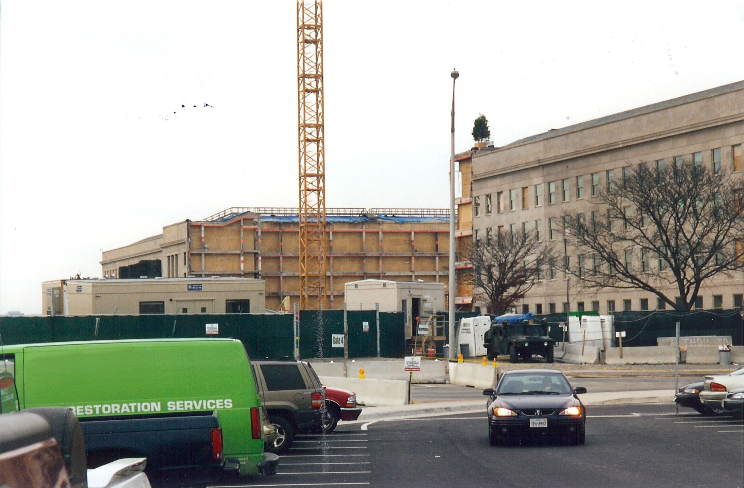 Damaged section of The Pentagon being reconstructed following the September 11, 2001 terrorist attacks.